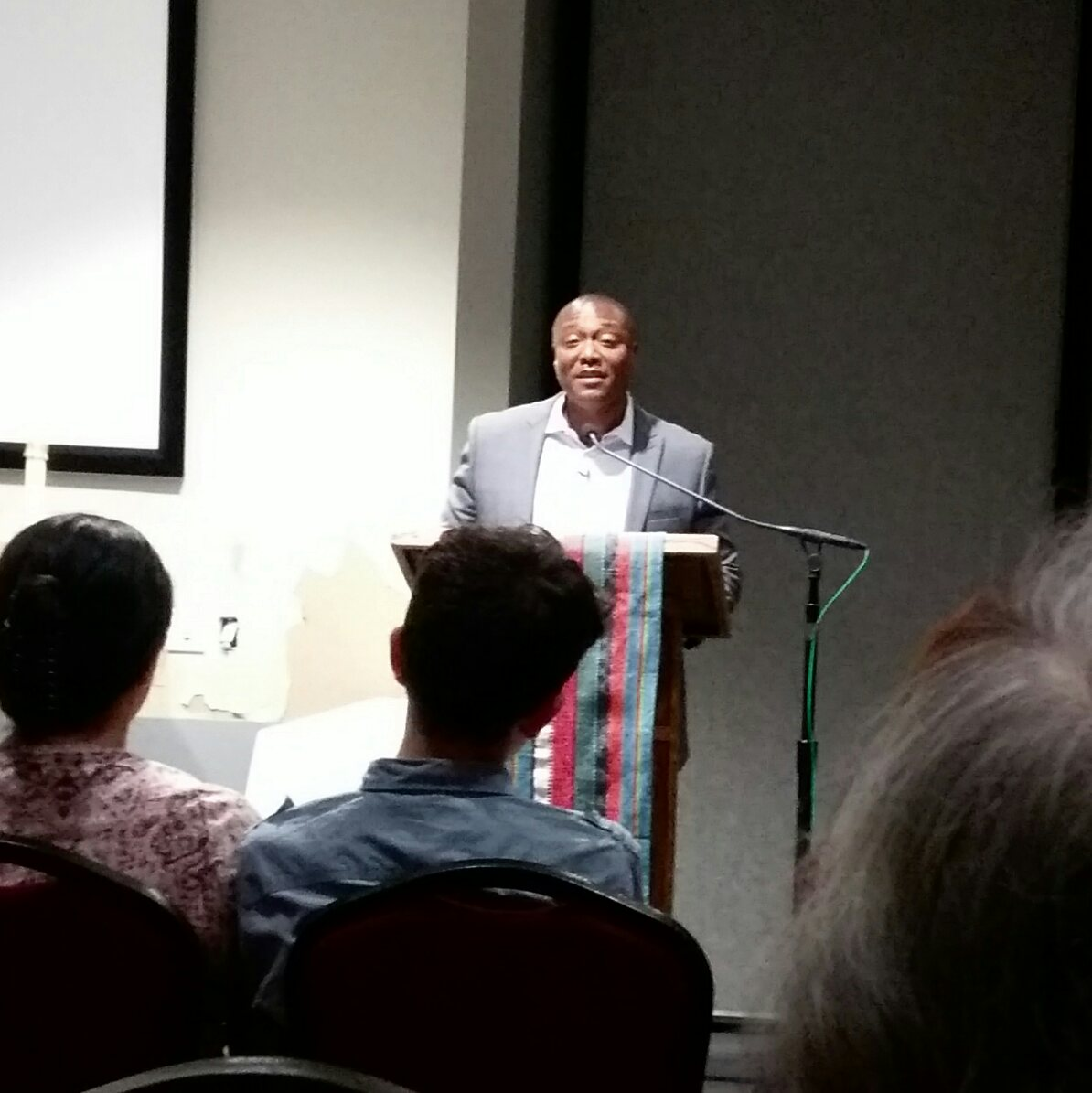 Anthony Graves at a speaking event at a church in Spring, Texas, October 11, 2017. Graves spent 18 years in prison, most of that on death row, for a crime of which he was later exonerated.